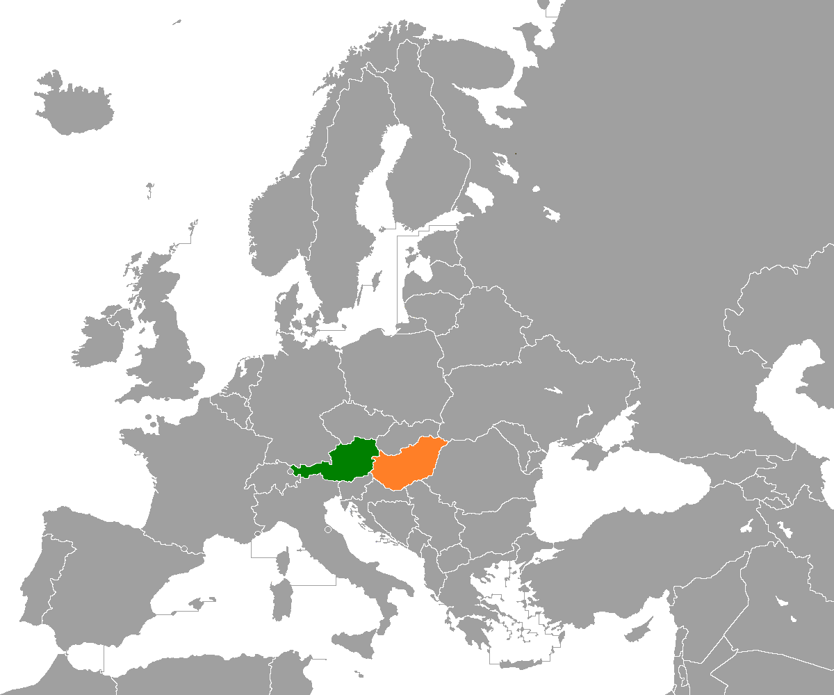 Austria-Hungary locator map.